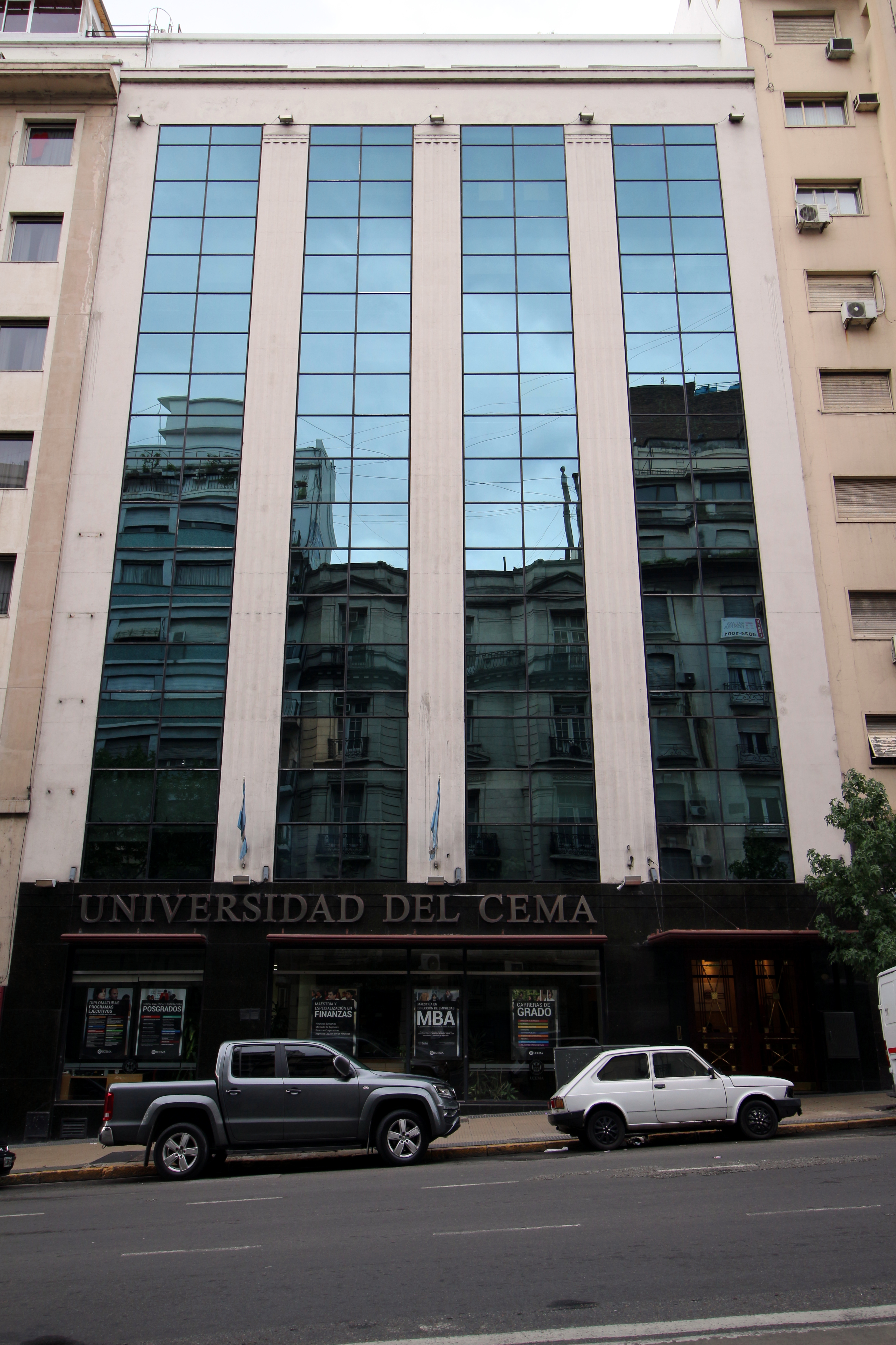 Headquarters of the University of CEMA. Córdoba 374, Buenos Aires, Argentina.